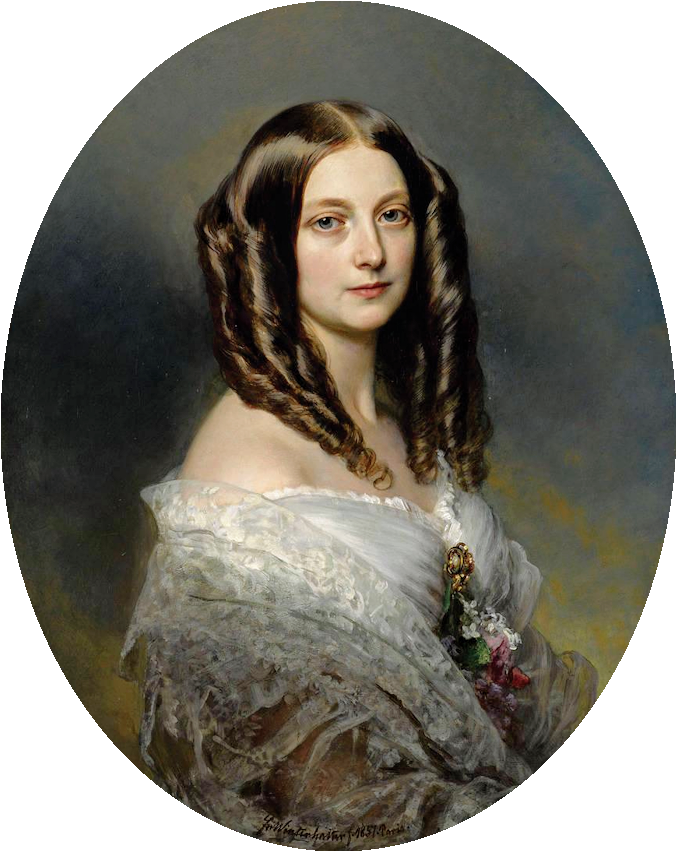 Portrait of Claire-Émilie Mac Donell, by Franz Xaver Winterhalter.